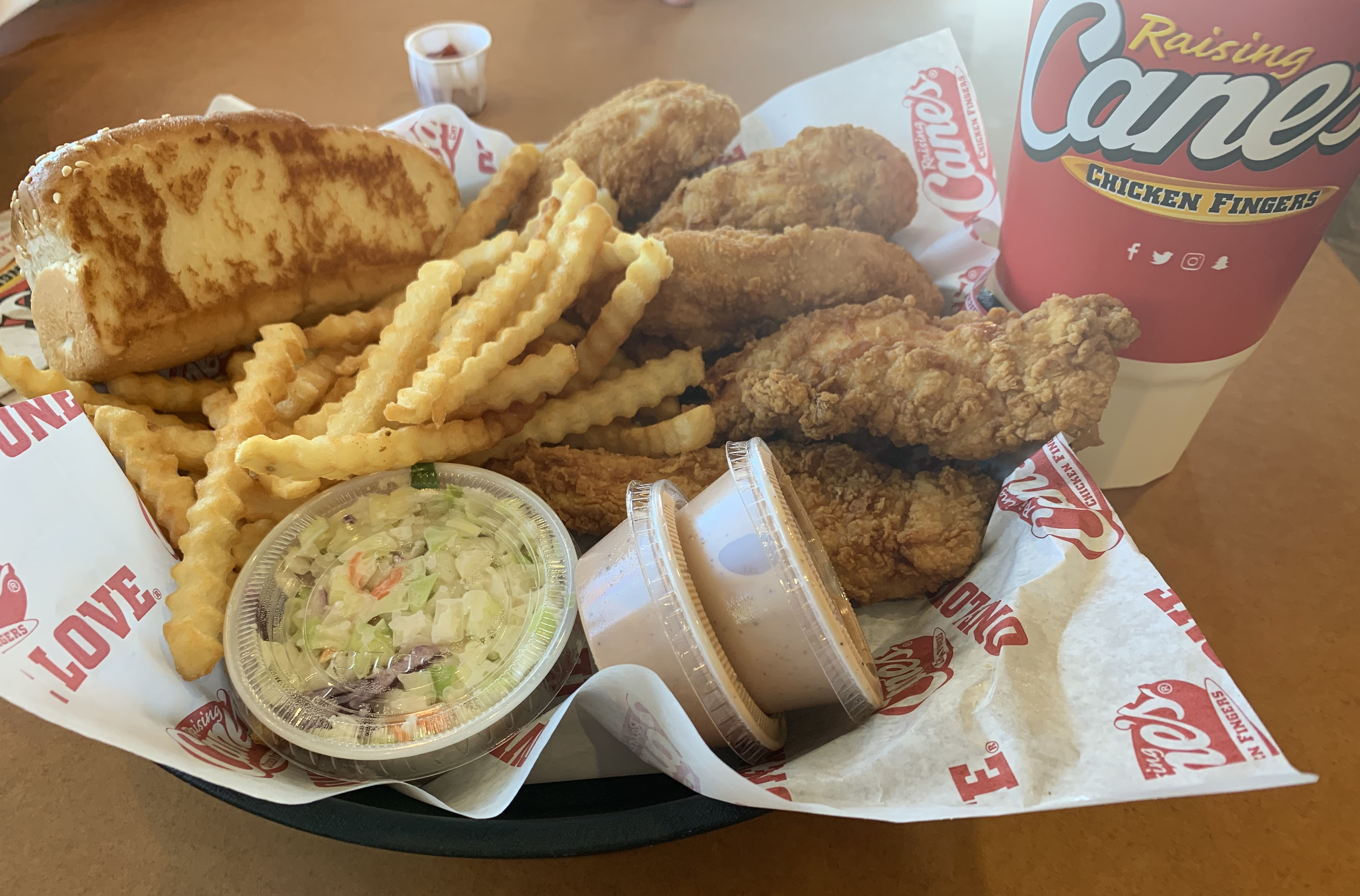 Raising Cane’s Caniac Combo: 6 chicken fingers, coleslaw, fries, Texas toast, Cane’s sauce, and a large lemonade